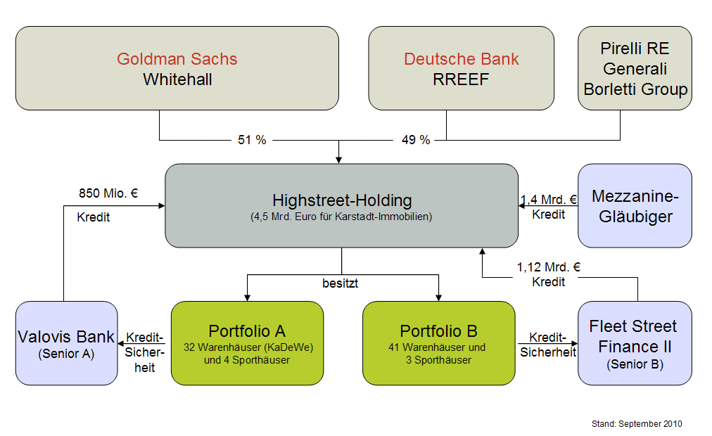 Organizational chart of the German "Highstreet" real estate consortium and its creditors, as of September 2010.